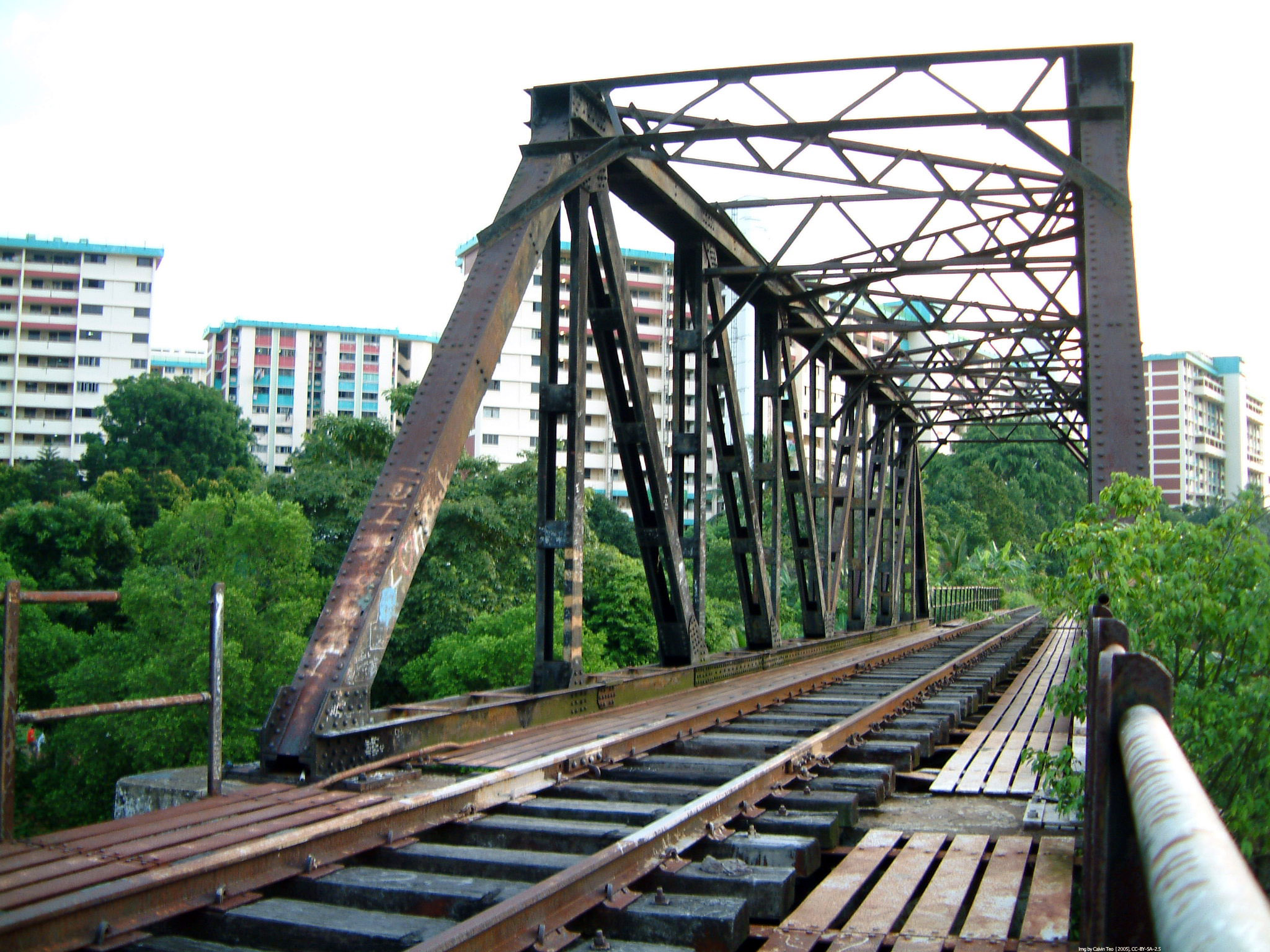 Coordinates: +1° 19' 21.97", +103° 46' 2.28" A Bridge over troubled waters Keretapi Tanah Melayu Berhad, Jurong Branch Line, Singapore Img by Calvin Teo 2005